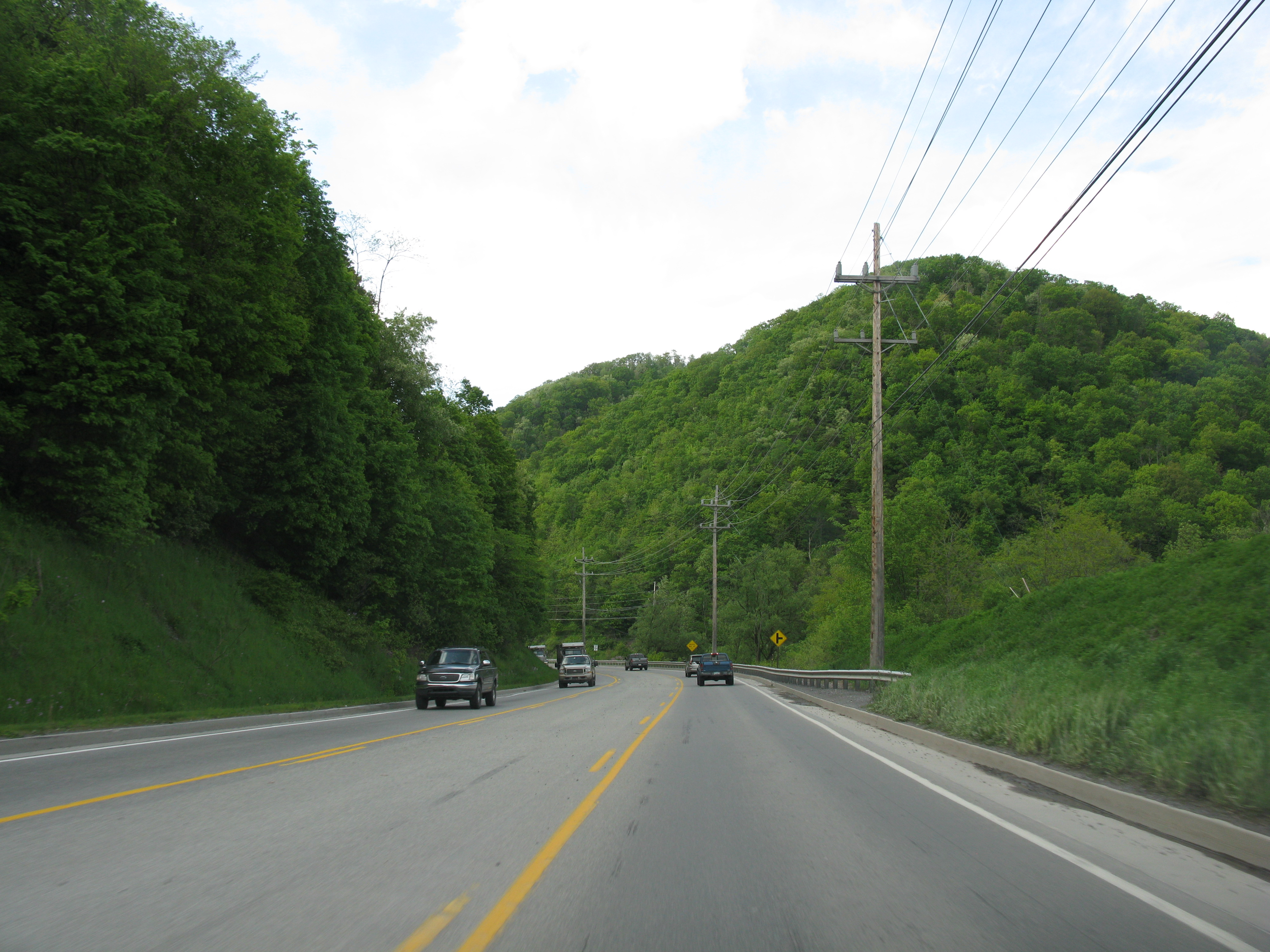 SR 36 near SR 867, Taylor Township, Pennsylvania